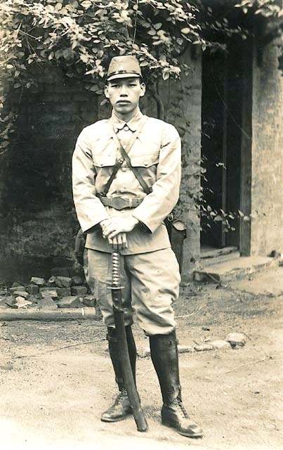 在南洋菲律賓的台籍日本兵持刀照